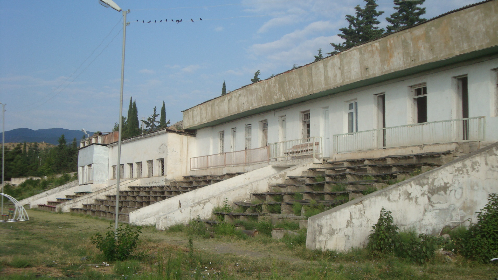 A stadium. Martakert, Republic of Mountainous Karabakh (Artsakh).